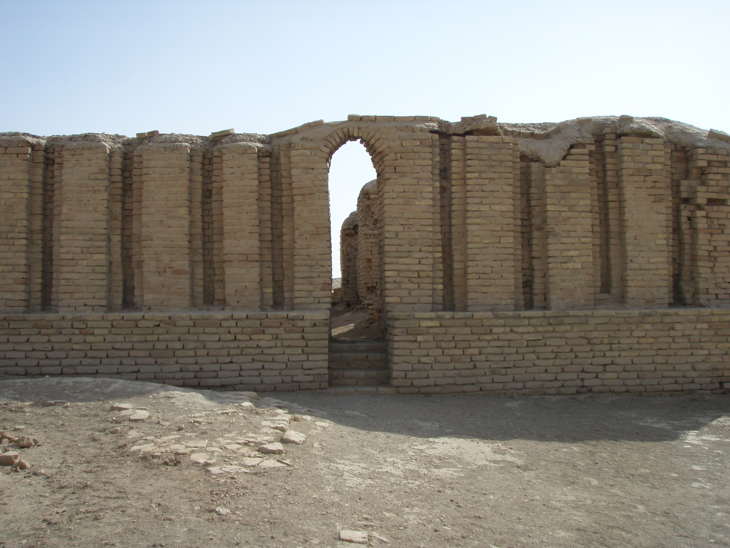 said to be the oldest still-standing (never restored) arch in the entire world. only 500 feet or so from the ziggurat of Ur